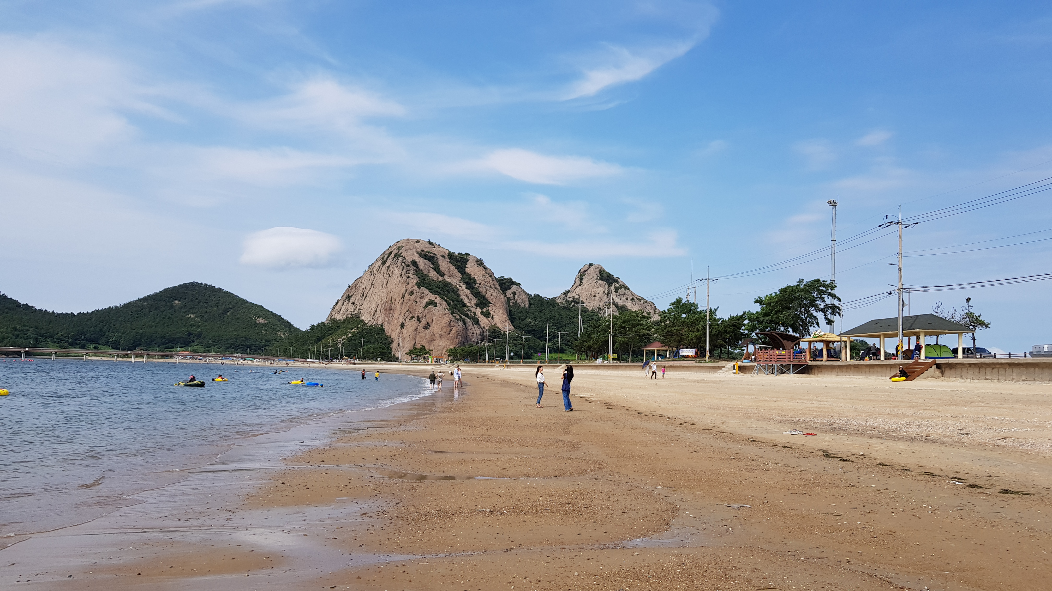 Sunyoodo (Kunsanshi)